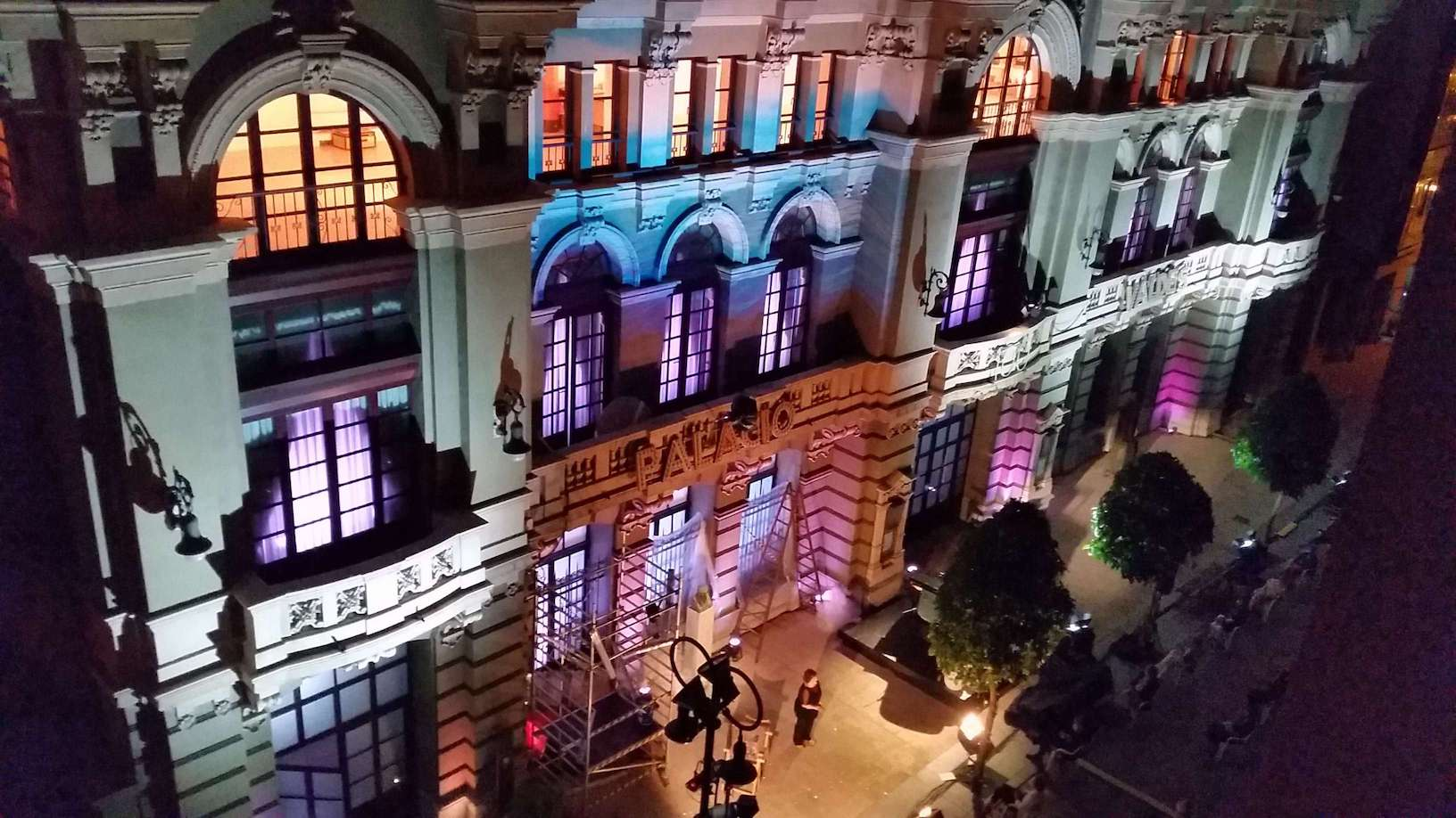 Street opera/zarzuela event to celebrate the 100 years of the theatre